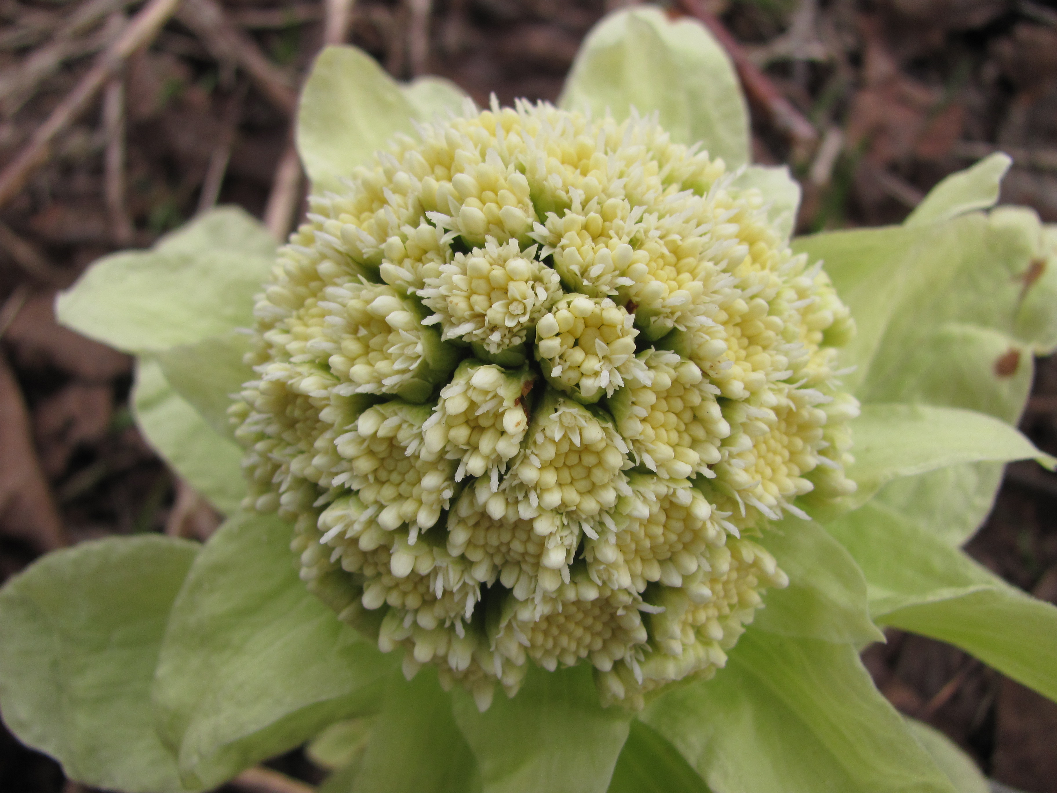 Petasites japonicus, Yuzhno-Sakhalinsk (Russia, Sakhalin island)